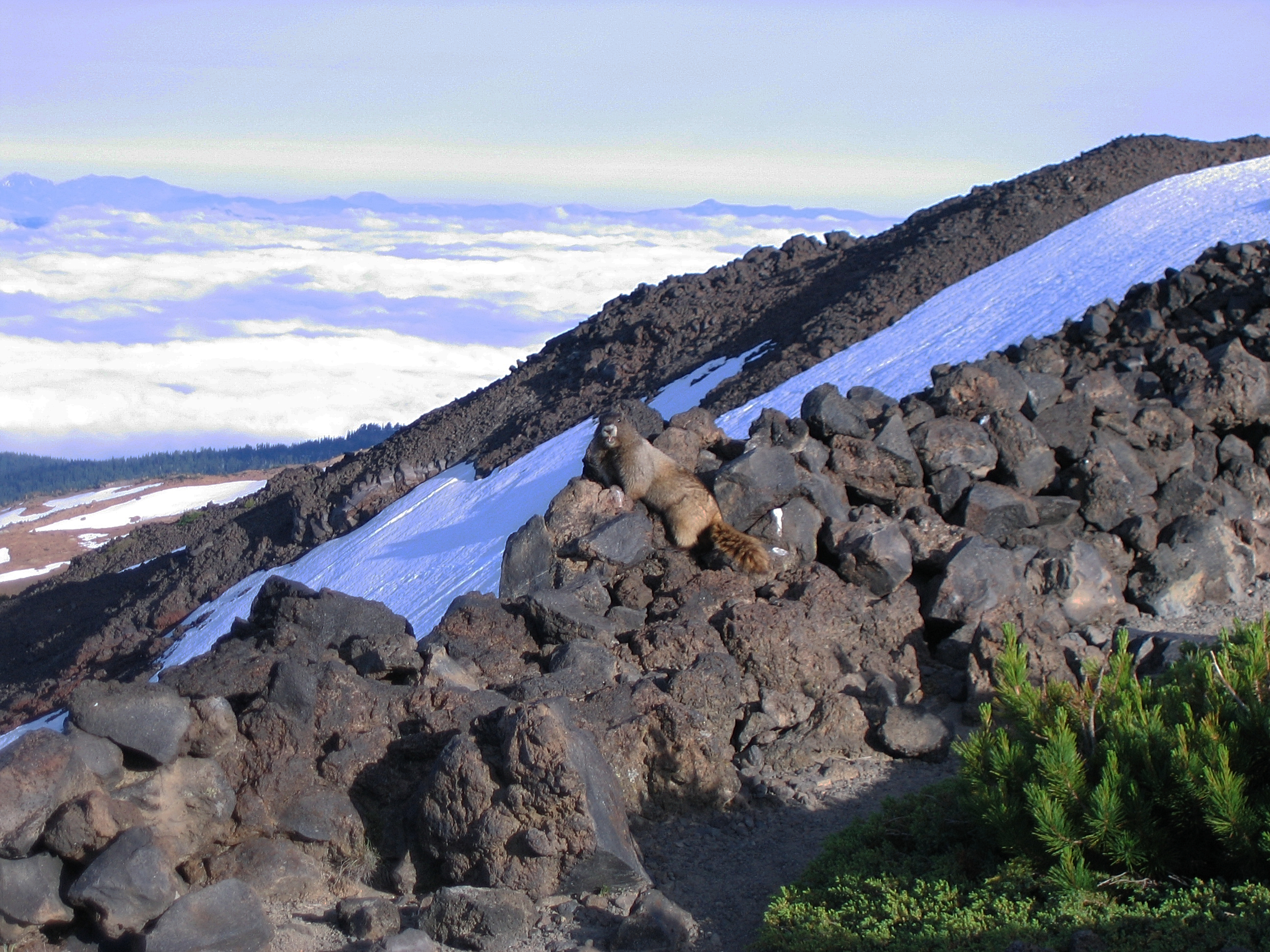 Hoary marmot (Marmota caligata) above the tree line on Mount Adams (Washington).